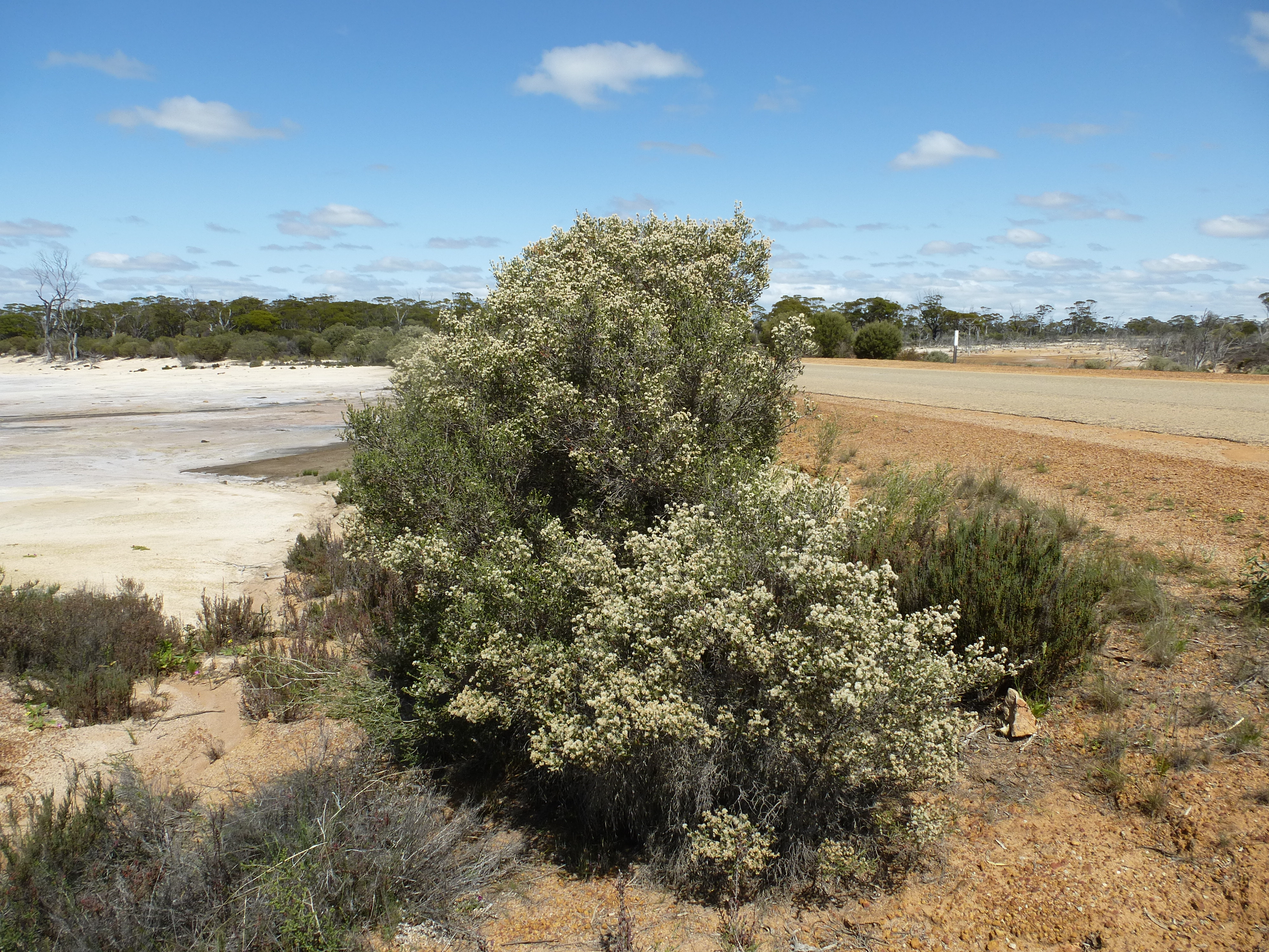 Melaleuca halmaturorum growing near a salt lake, 5km S of Hyden